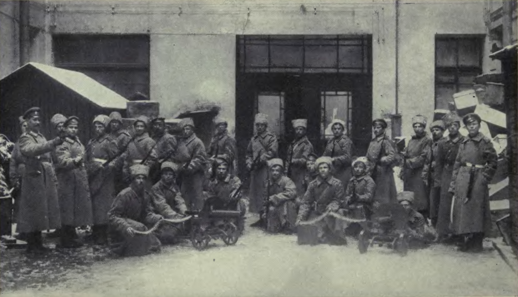 Bolshevik troops during the Russian Revolution.